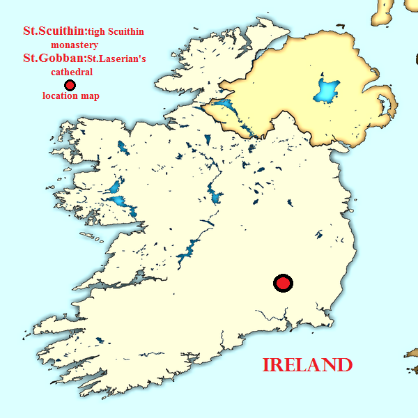 General location map for St.Scuithin's monastery and St.Gobban's Abbey- now known as St.Laserian's cathedral